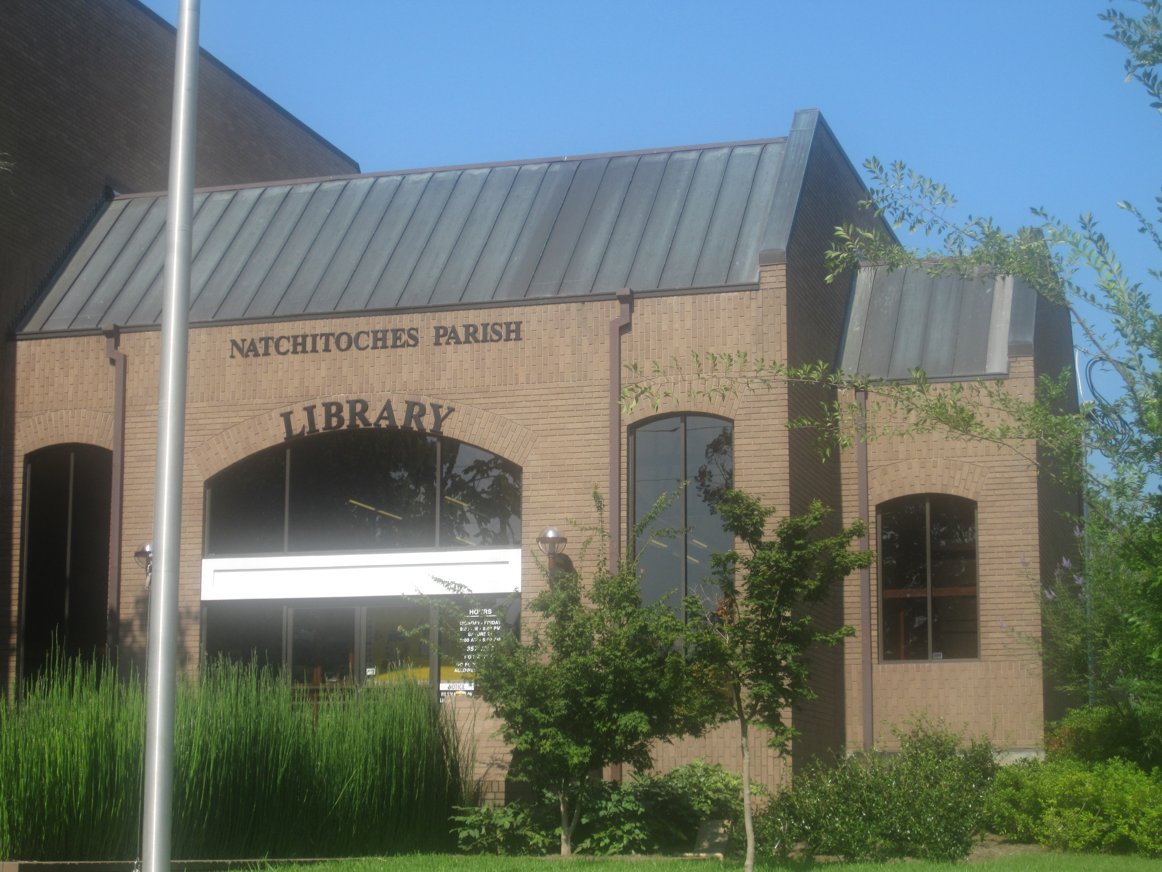 Natchitoches Parish Library in Downtown Natchitoches, LA